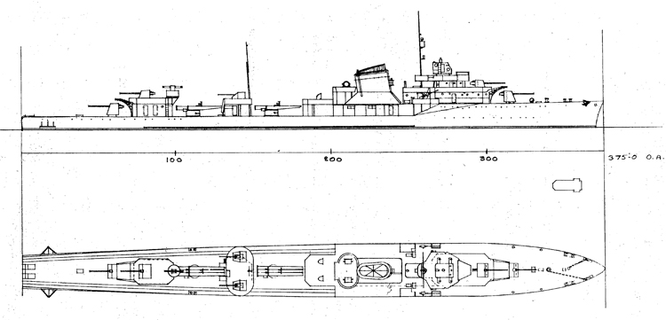 Right elevation and plan of the Gnevy-class destroyer